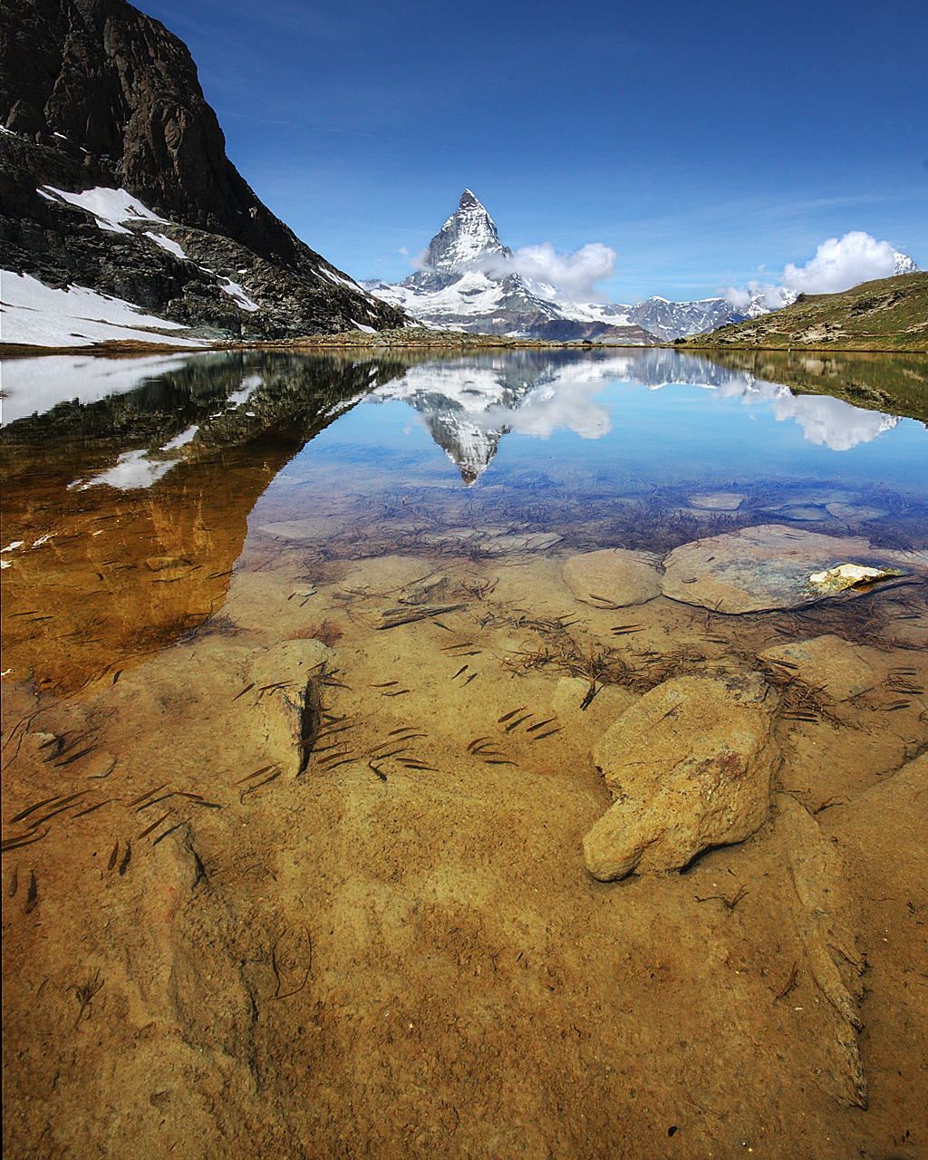 Matterhorn from the Riffelsee. Taken during a trekking tour of the Mattertal in Valais, Switzerland, Summer 2009